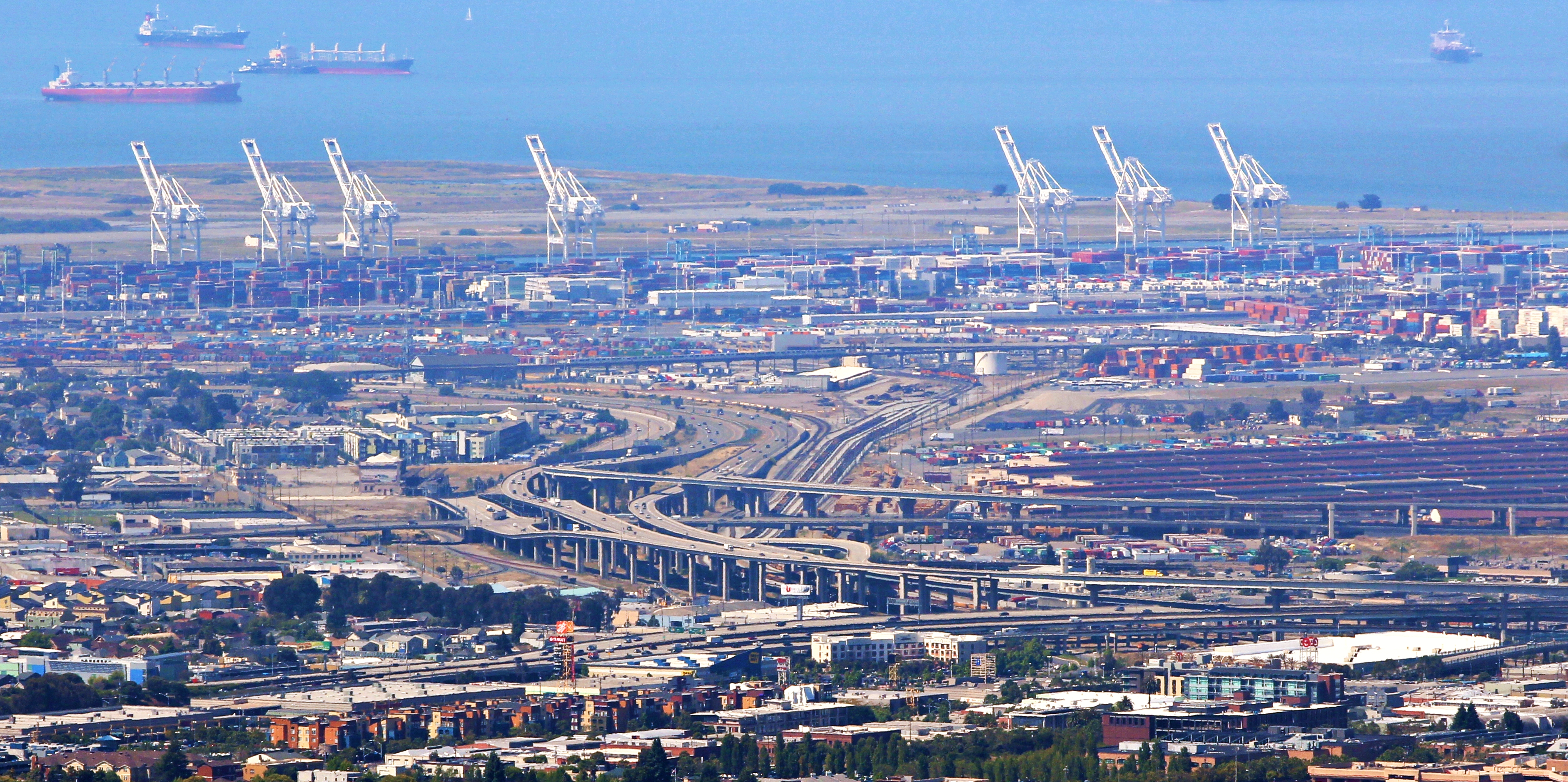 MacArthur Maze freeway interchange in Oakland, CA, USA